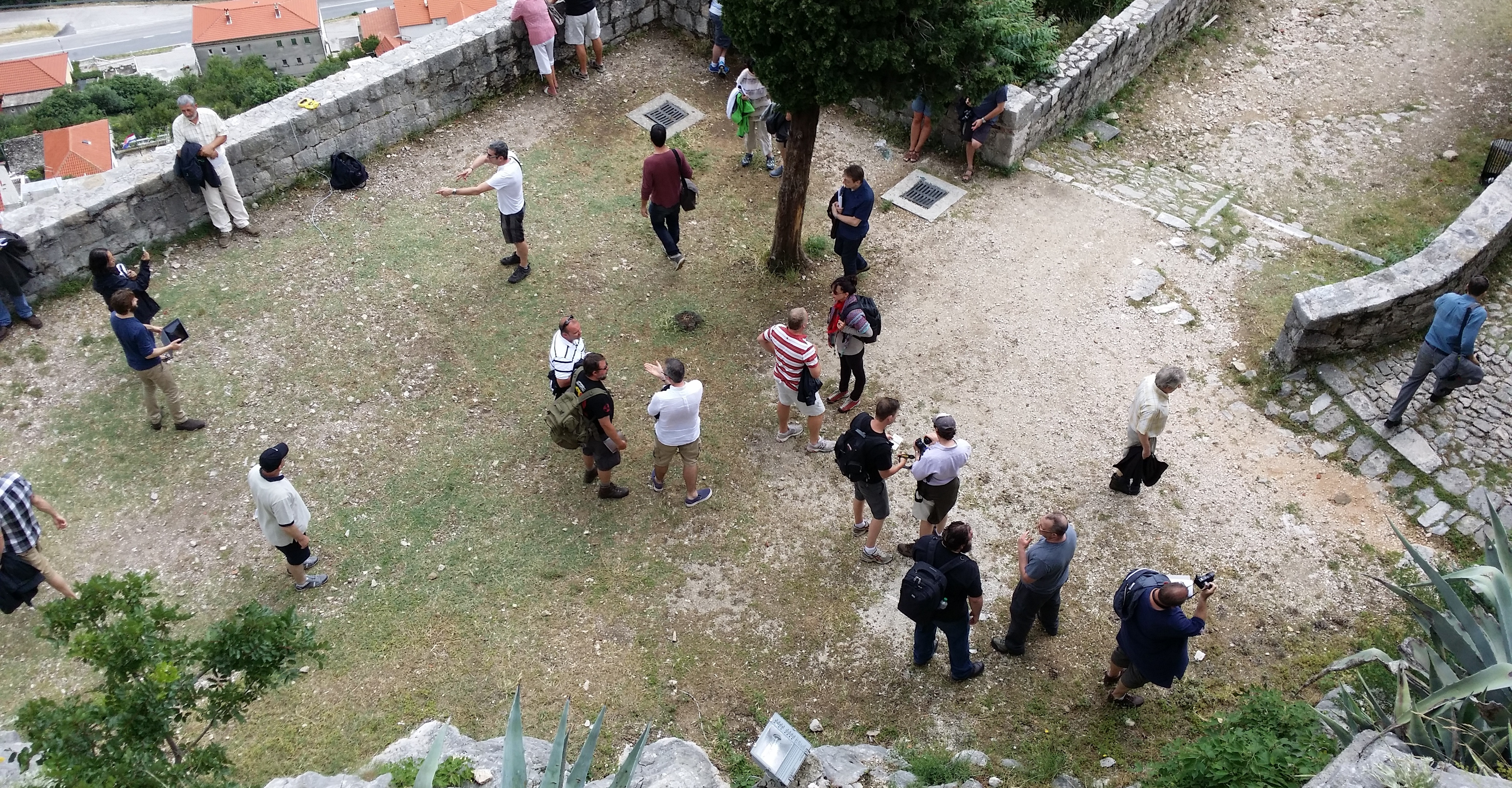 Part of the production team of Game of Thrones during their location scouting at Klis Fortress near Split, Croatia prior to season 5.